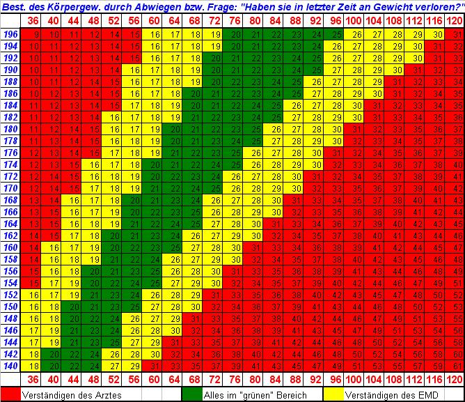 Body Mass Index (adults)